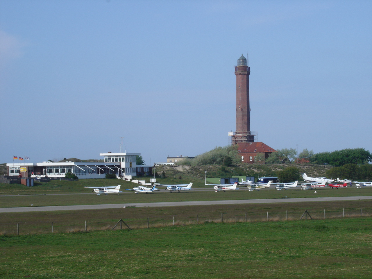 Lighthouse and airfield of Norderney